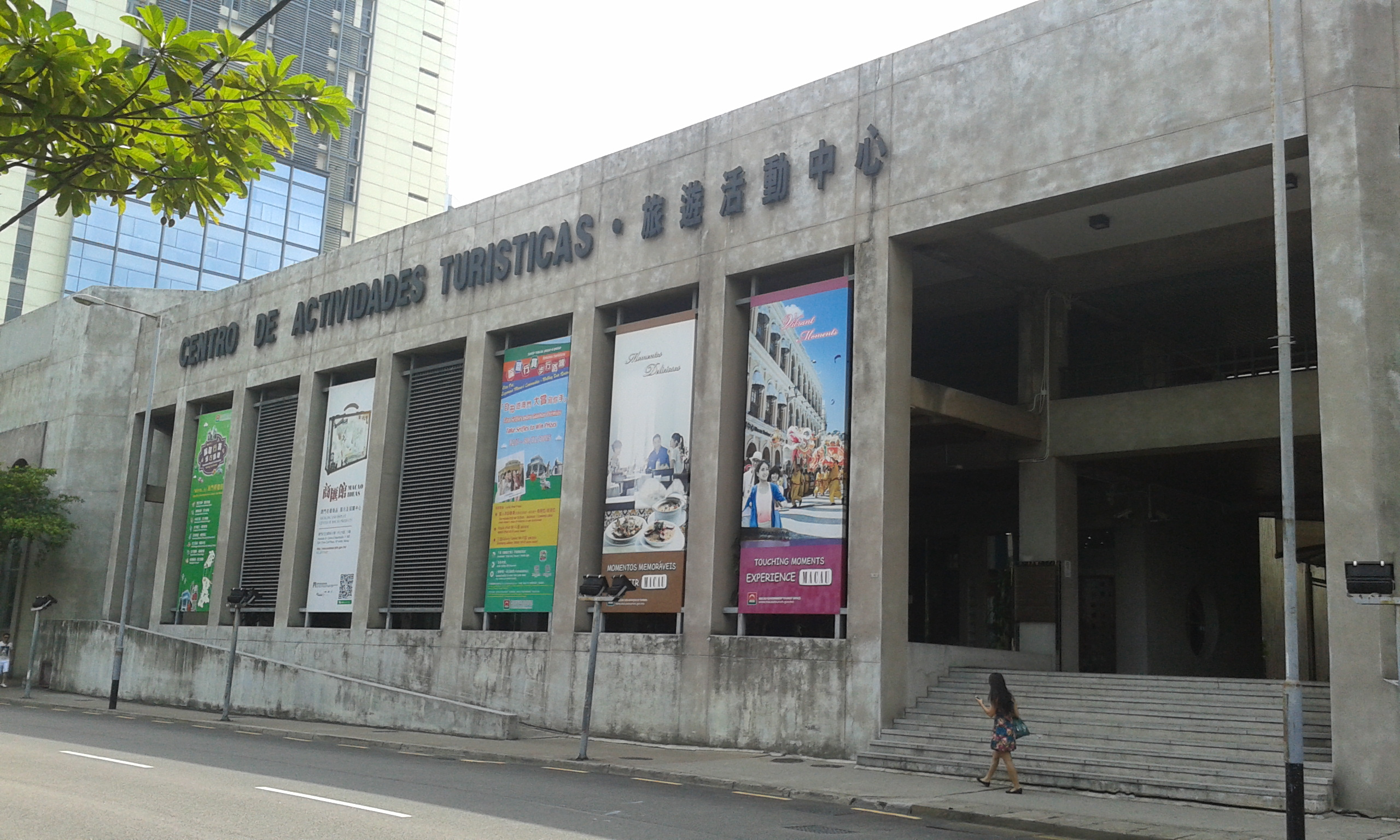 Tourism Activiity Centre